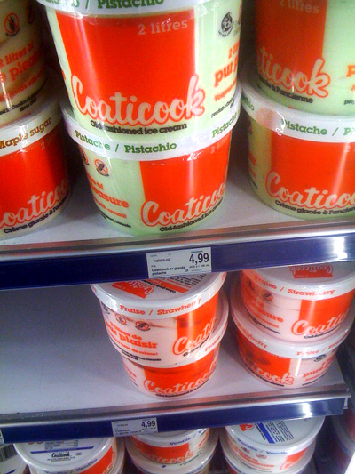 Coaticook ice cream in a supermarket.